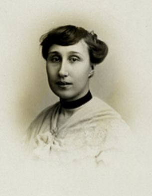 Marthe Vesque (1879-1949), French painter - see Vesque Sisters